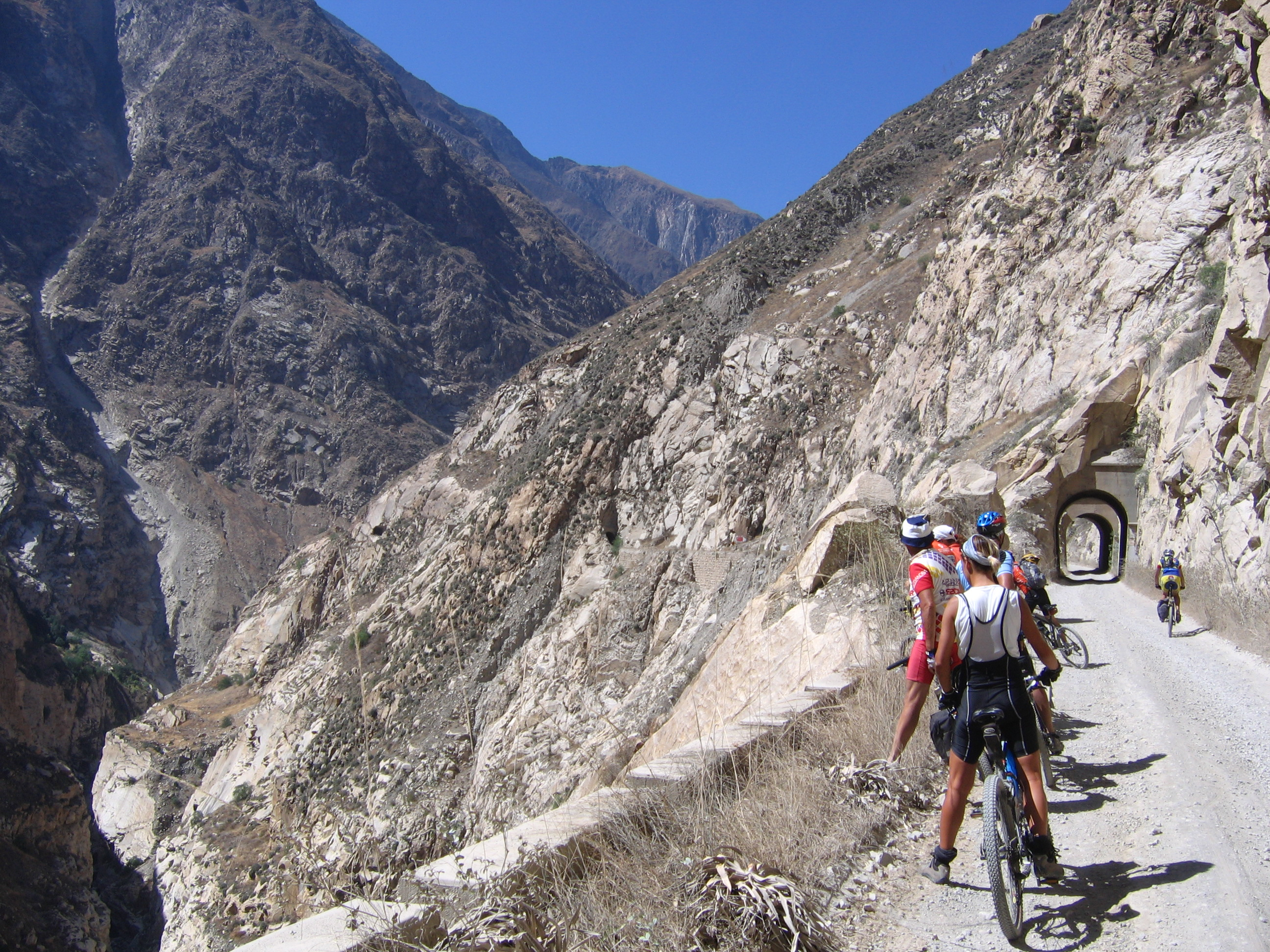 MTB en el Cañon del Pato, Ancash. Peru